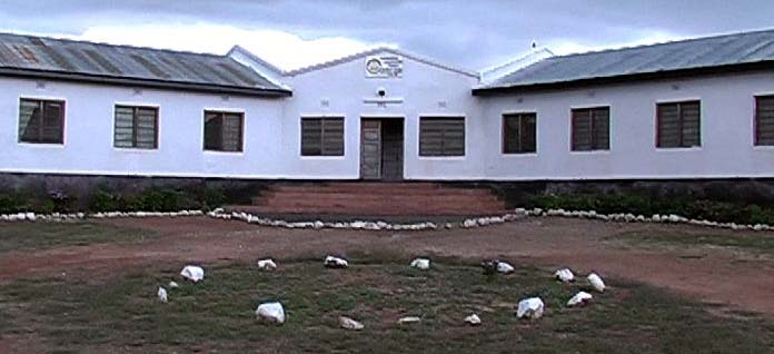 Ilaramatak Lo-orkonerei Institute building in Terrat